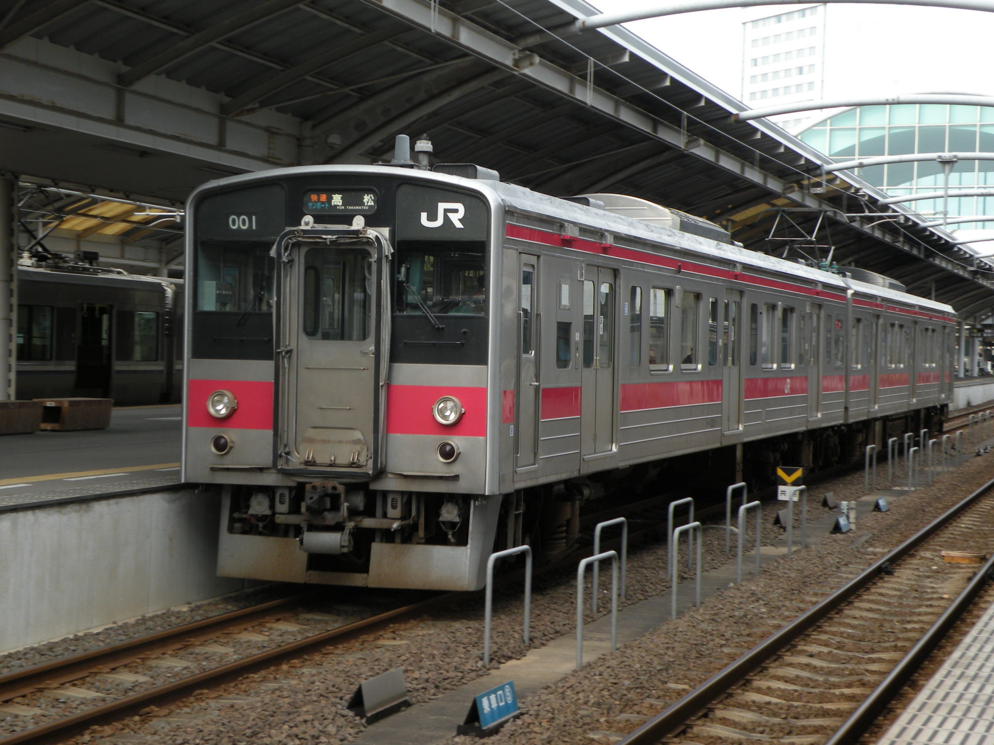 JR Shikoku 121 series EMU modified for wanman driver-only operation, at Takamatsu Station